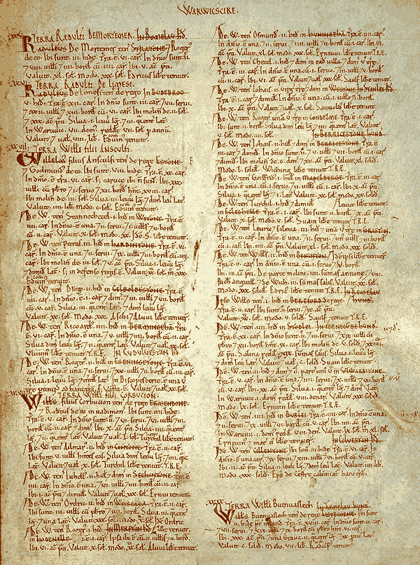 Page from the Domesday Book for Warwickshire, including listing of Birmingham